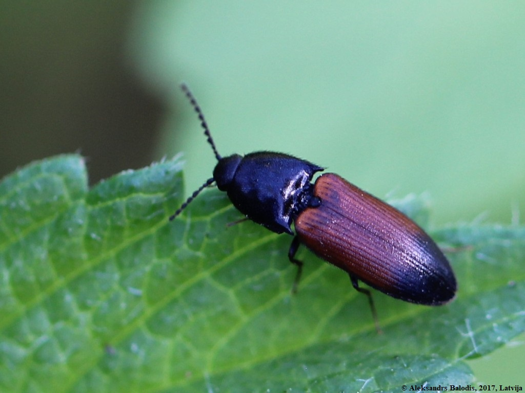 Ampedus balteatus